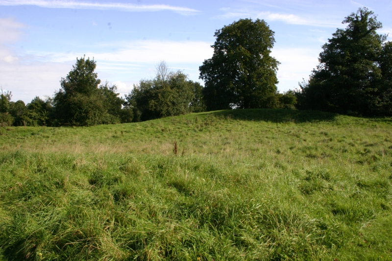 Deddington Castle today.